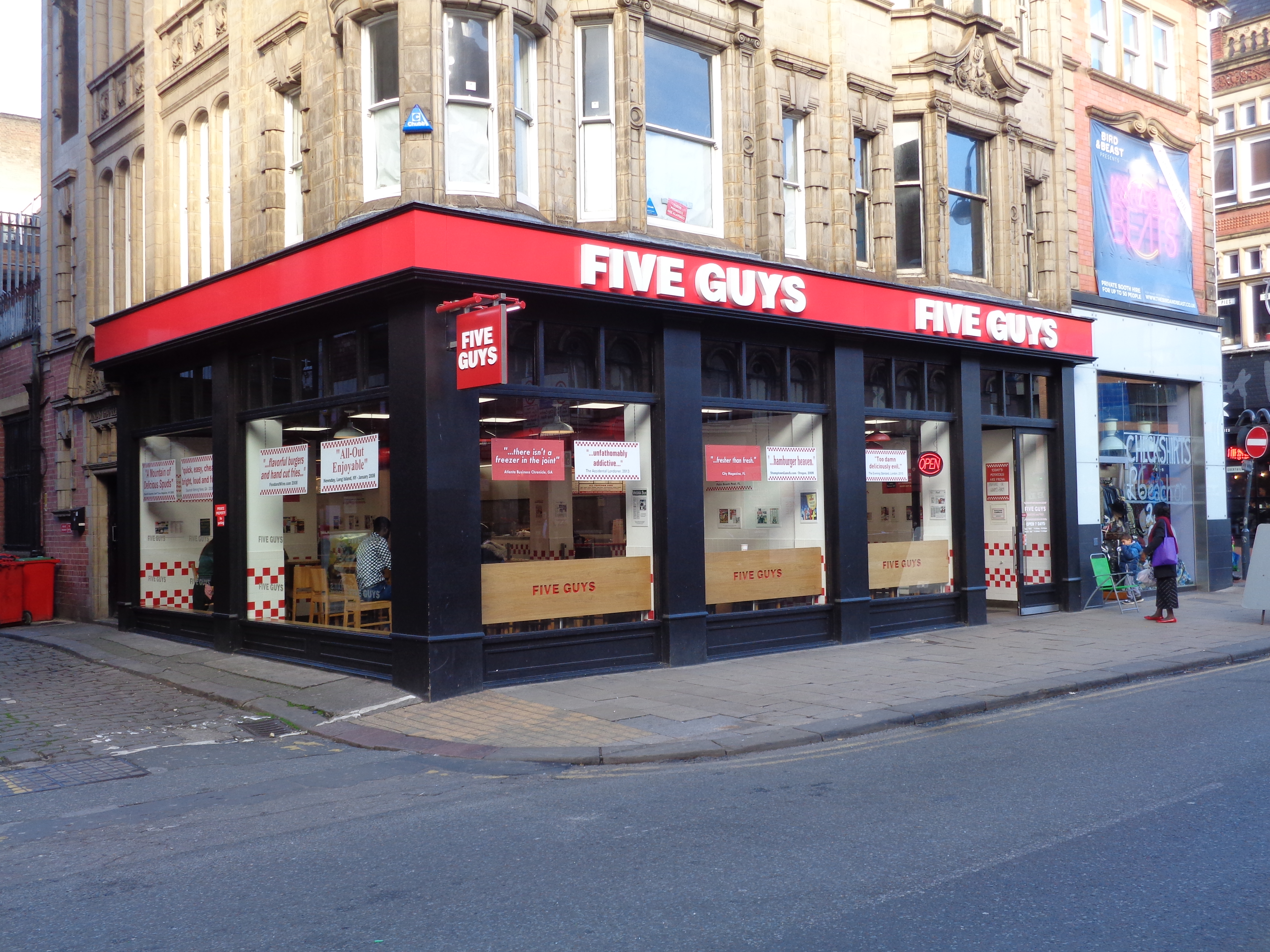 Five Guys, Duncan Street, Leeds, West Yorkshire. Taken on the afternoon of Thursday the 20th of October 2016.